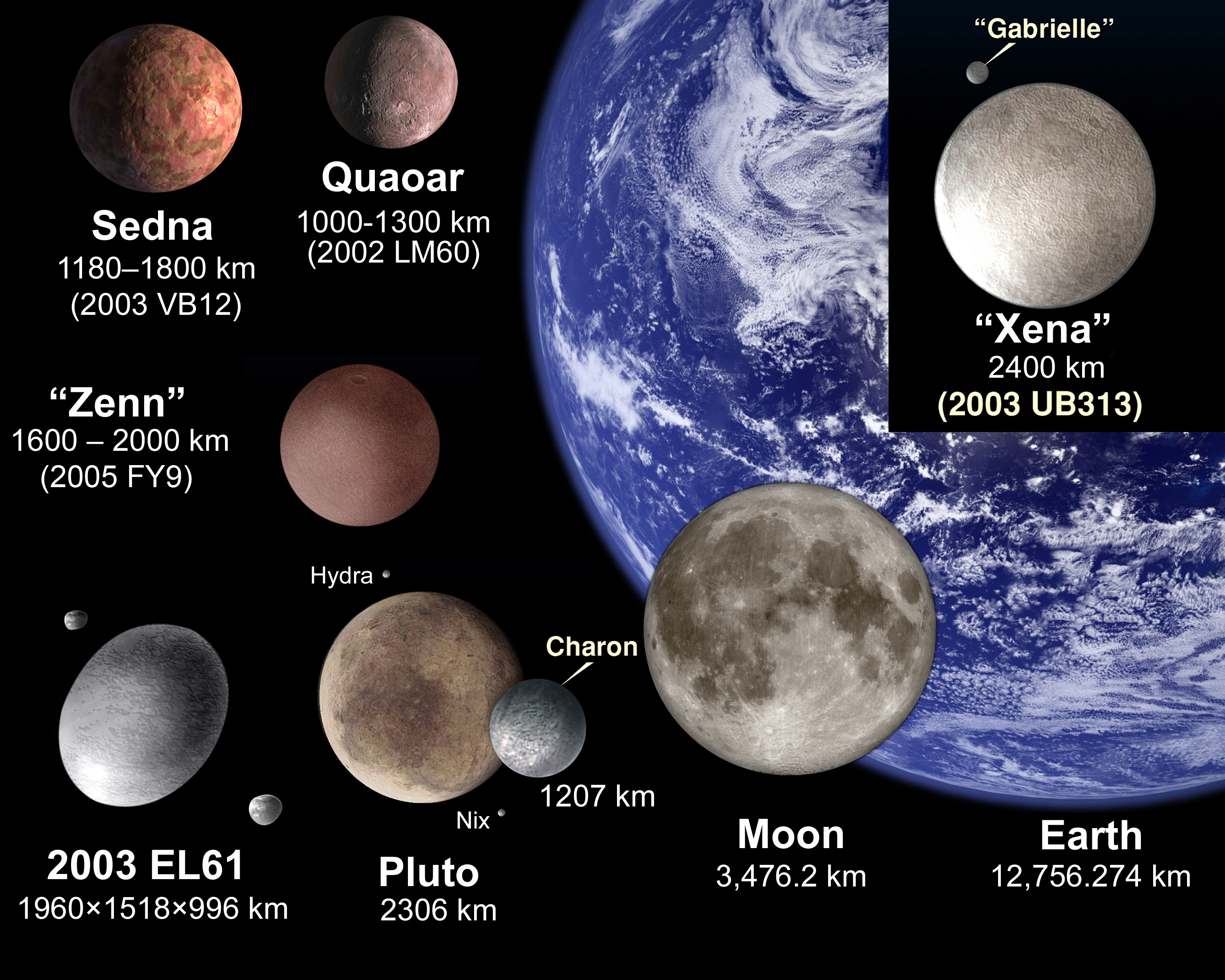 Largest Transneptune objects compared to Earth and Moon by diameter expressed in kilometers. Approximation of image's size.